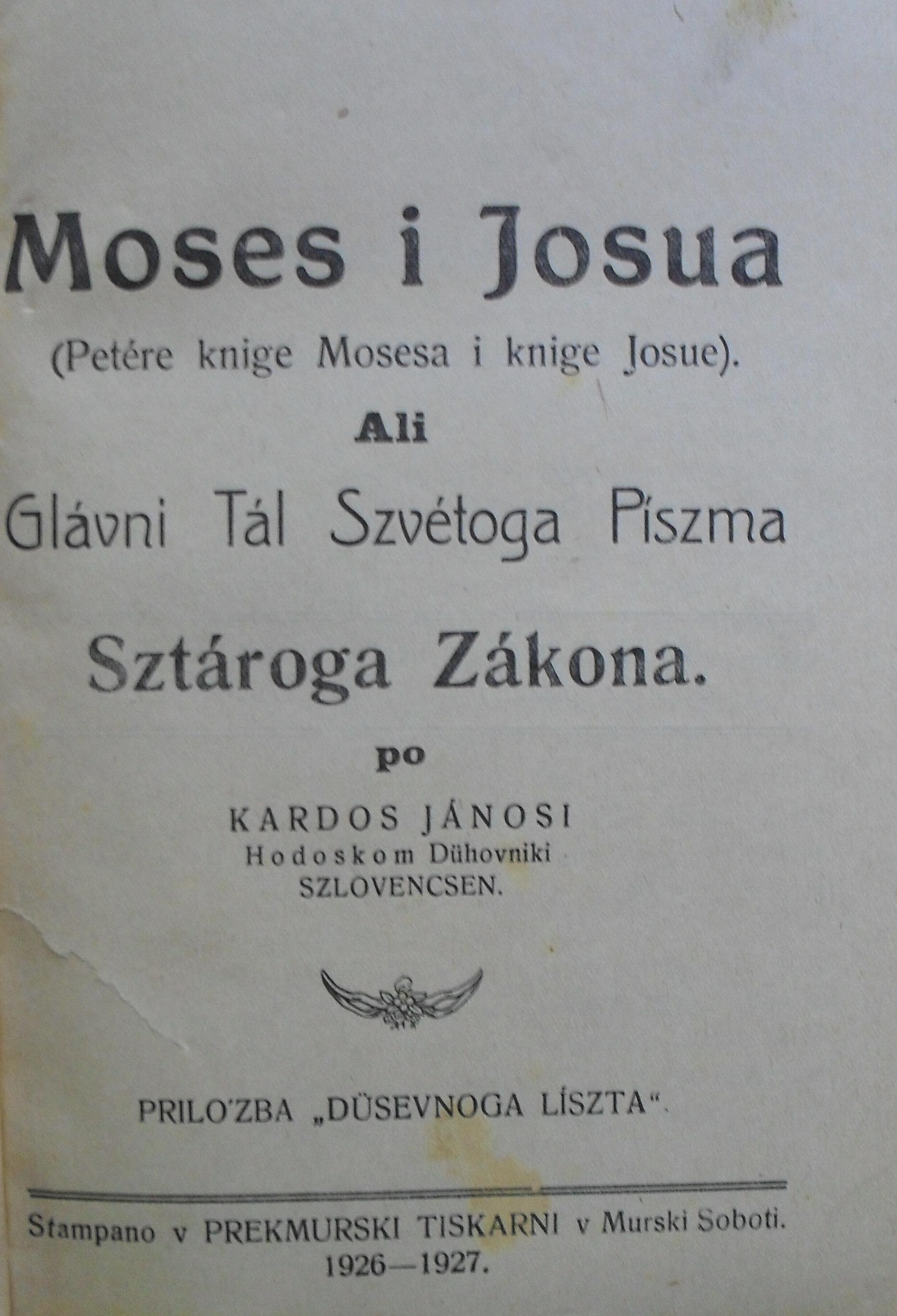 Moses i Josua (Moses and Joshua), prekmurian (prekmurščina) translation of the 5 books of Moses and Book of Joshua with the Düševni list. By János Kardos (1801-1873) lutheran priest in the 19th century (the printed issue from 1926)